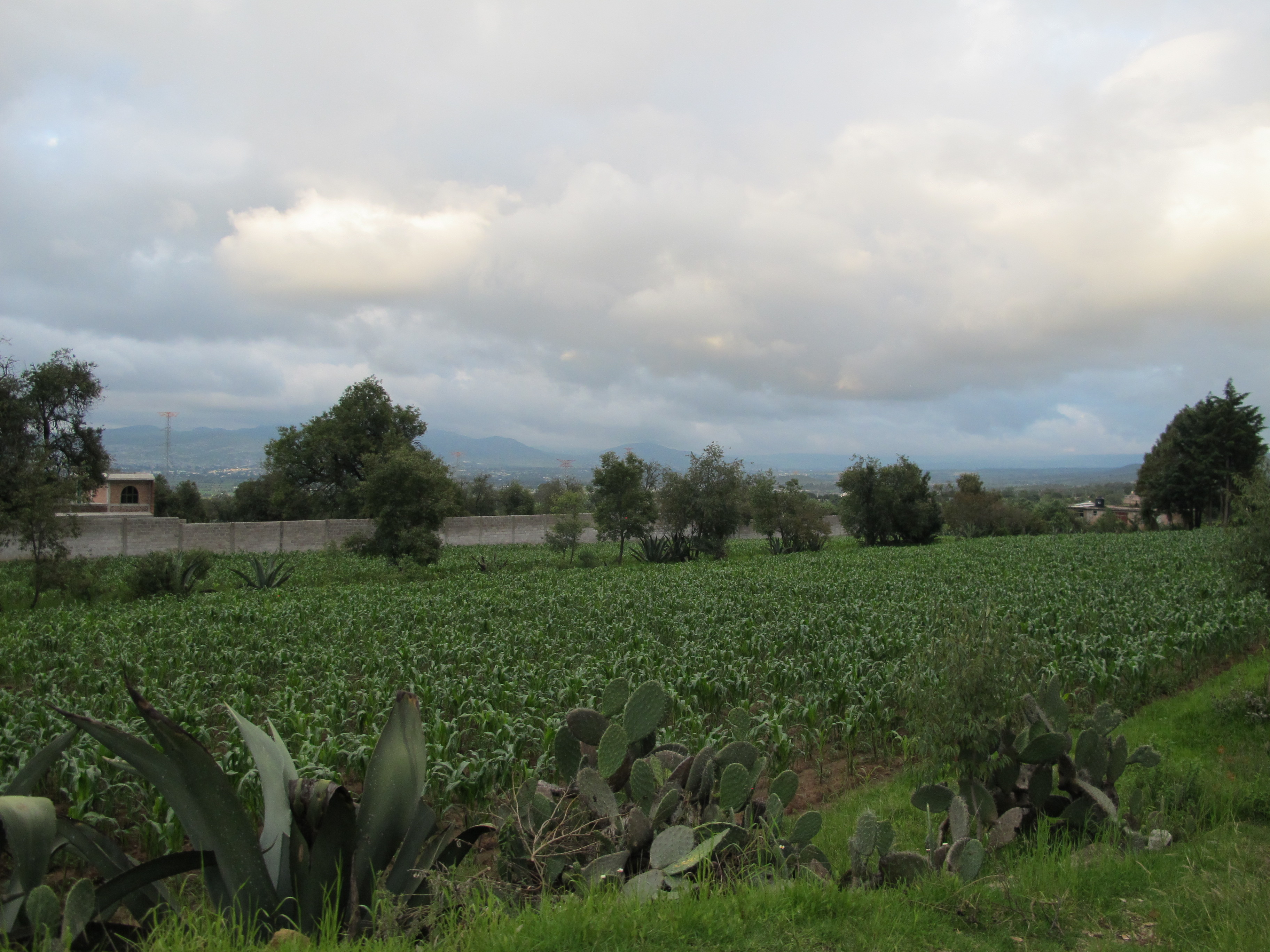 Milpa in Los Romeros, located in the municipality of Santiago Tulantepec, Hidalgo State.